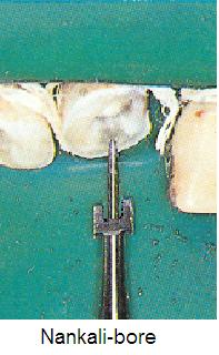 Bore for Nankali-post System